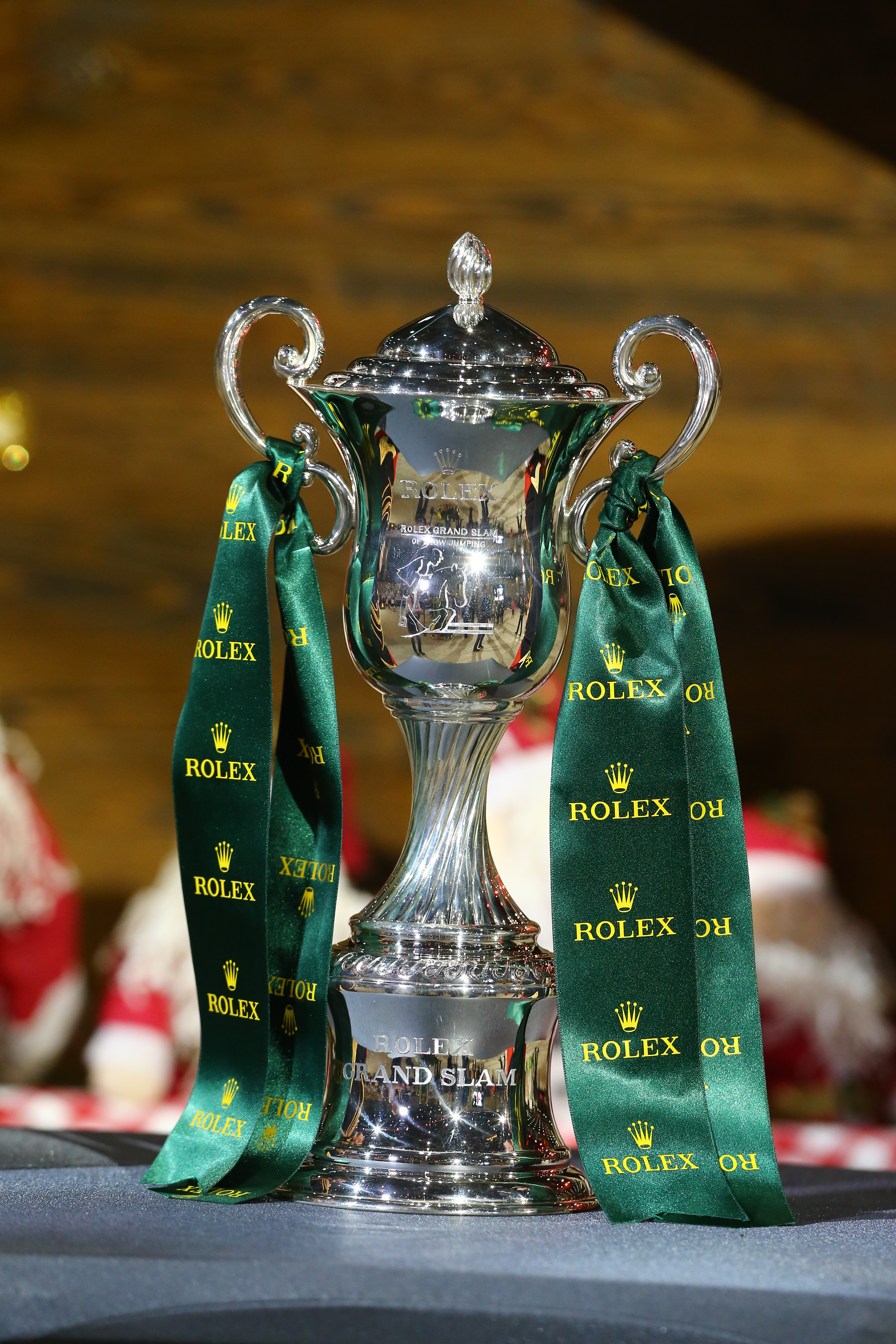 The Trophy of the Rolex Grand Slam of Show Jumping